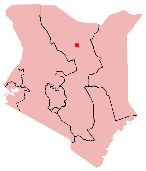 Marsabit, Kenya Location Map; created with the GIMP. Made by User:Acntx.